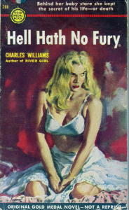 Description: Low-resolution image of cover of the novel Hell Hath No Fury (1953), written by Charles Williams Original rights holder: Gold Medal Books/Fawcett Publications, Inc.